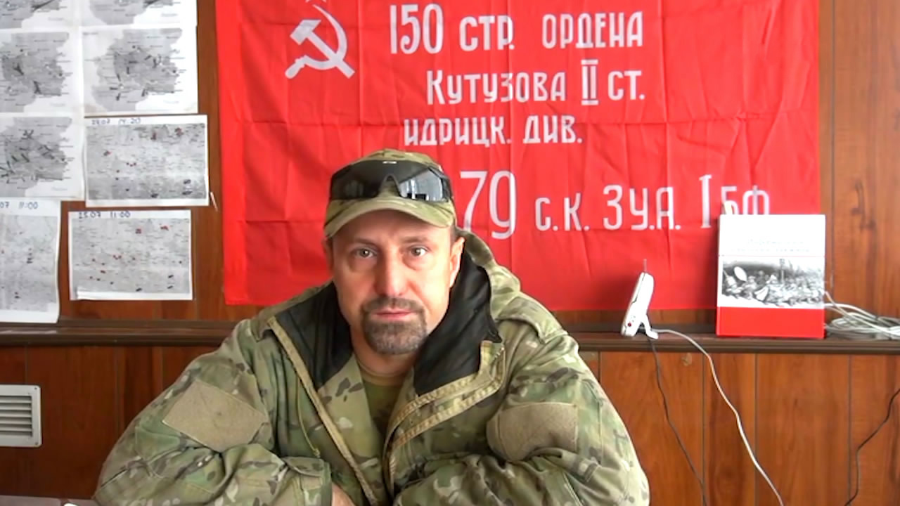 Alexander Khodakovsky press conference, concerning the battle of Saur-Mogila heights, August 9, 2014.